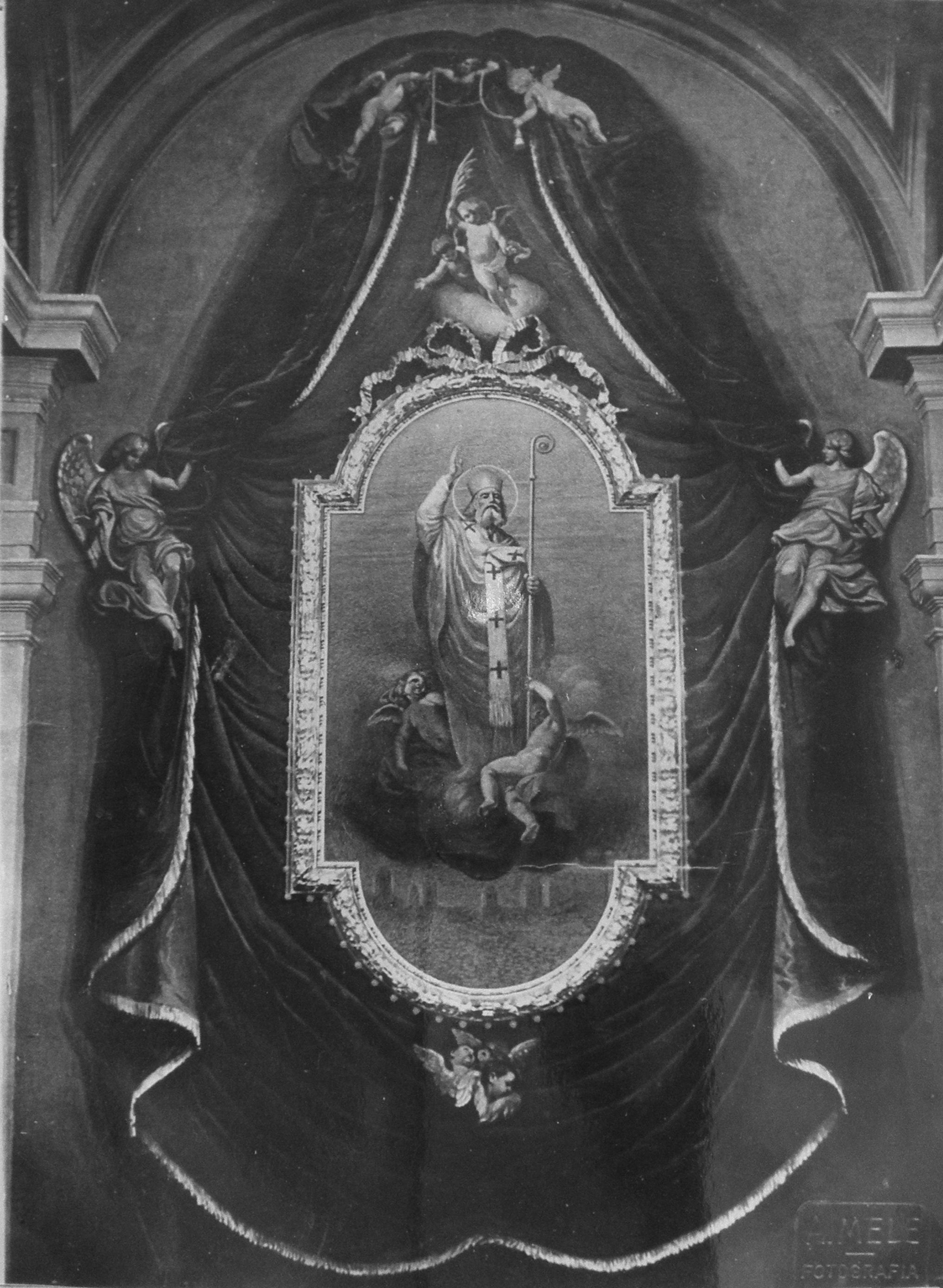 Pala di San Gaudenzo, destroyed during 1948s reconstruction work